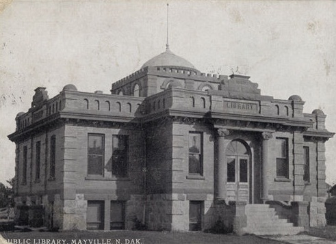 Photo postcard of Public Library in Mayville, South Dakota. Per source info at NDSU site, the postmark date is Jan. 8, 1909.